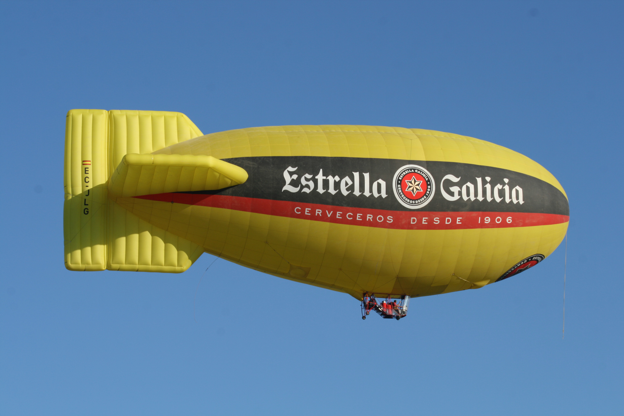 Vigo Air Show 2010